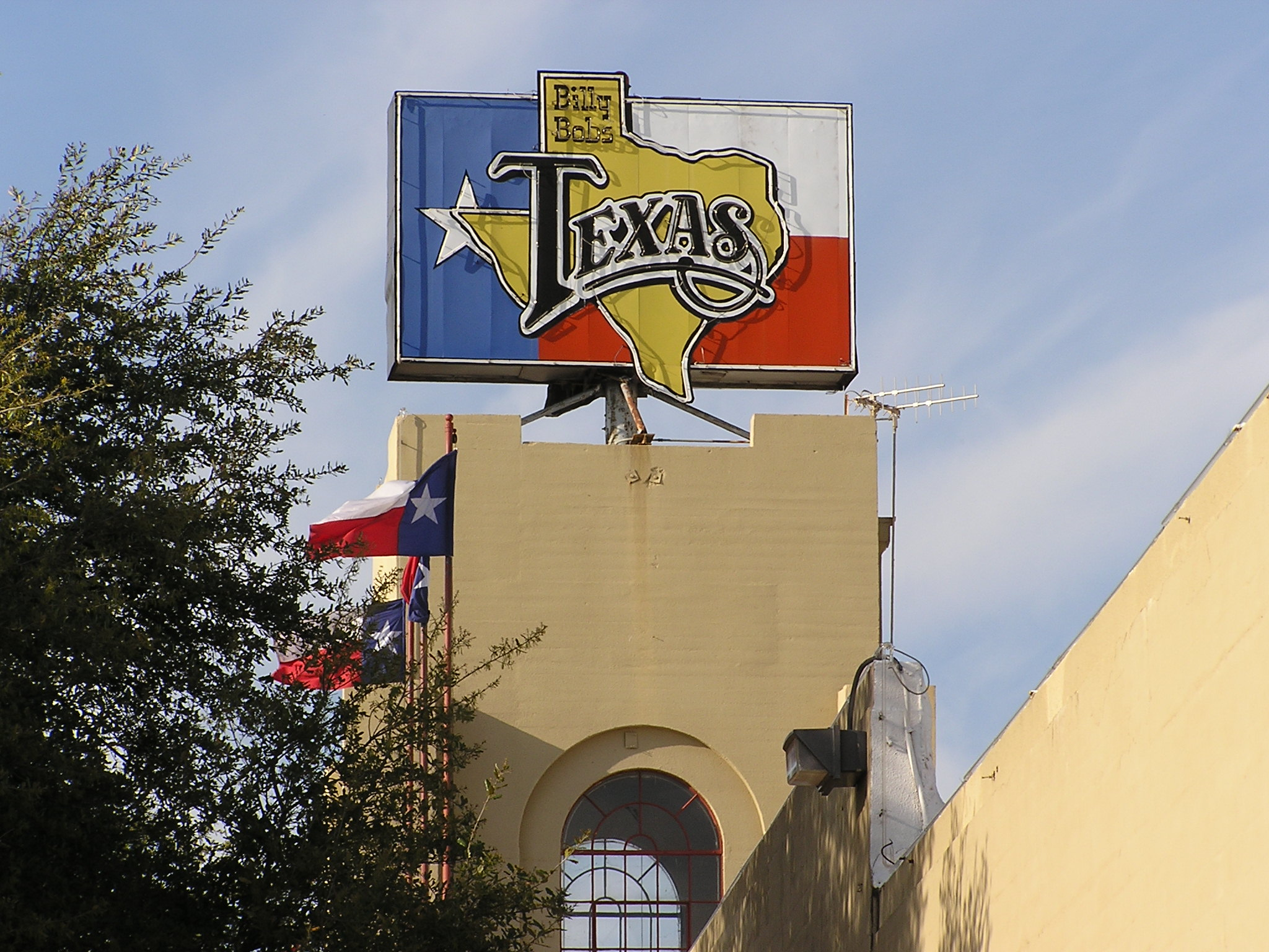 Billy Bob's Texas, the world's largest honky tonk. (2005)